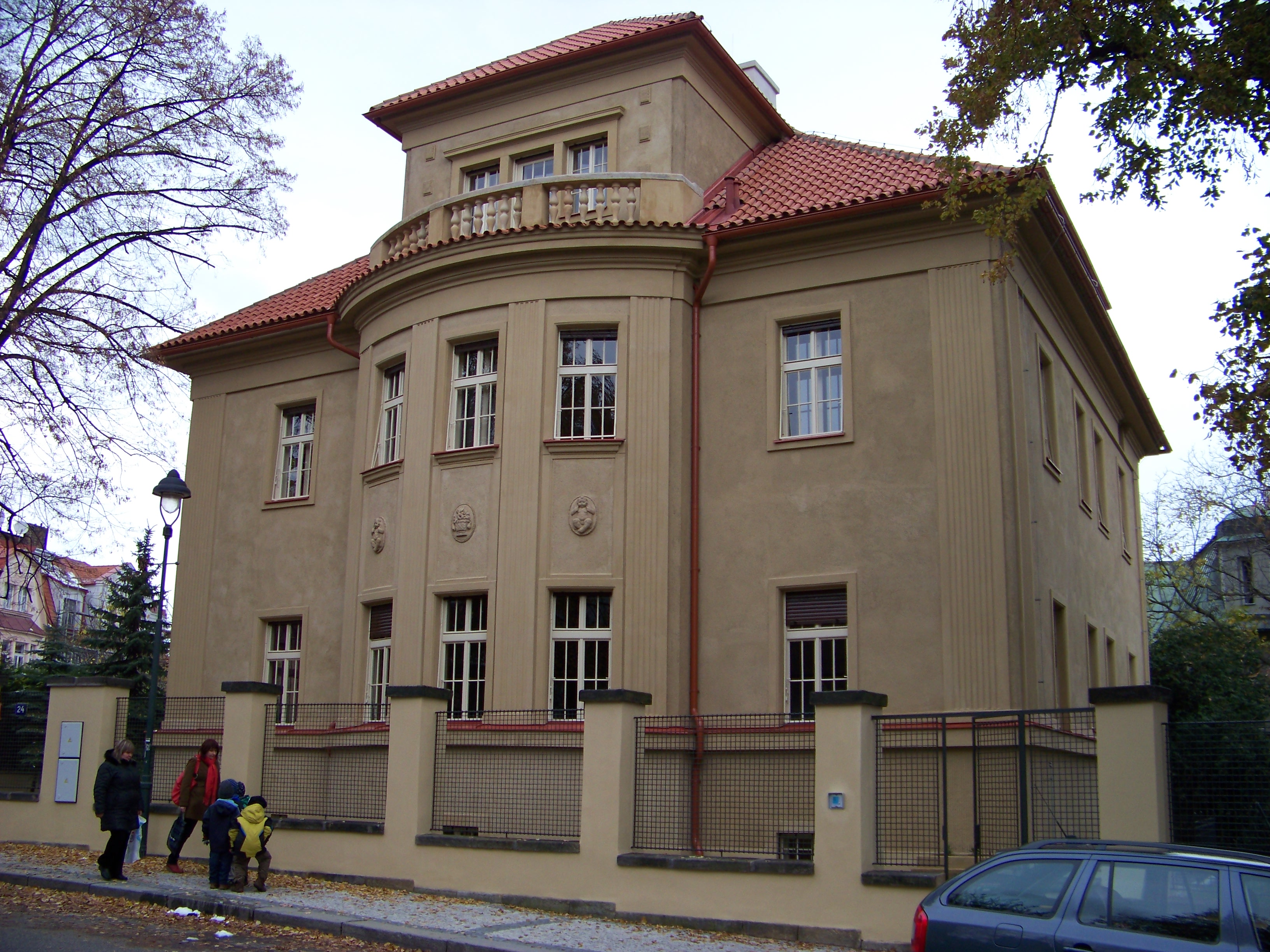 Prague-Hradčany, the Czech Republic. U Písecké brány 266/24